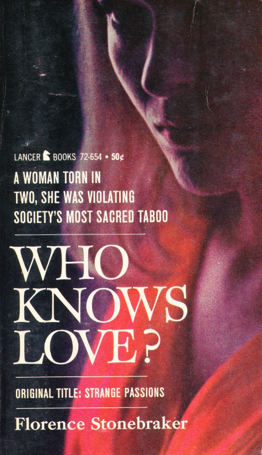 Cover of "Who Knows Love?" by Florence Stonebraker.